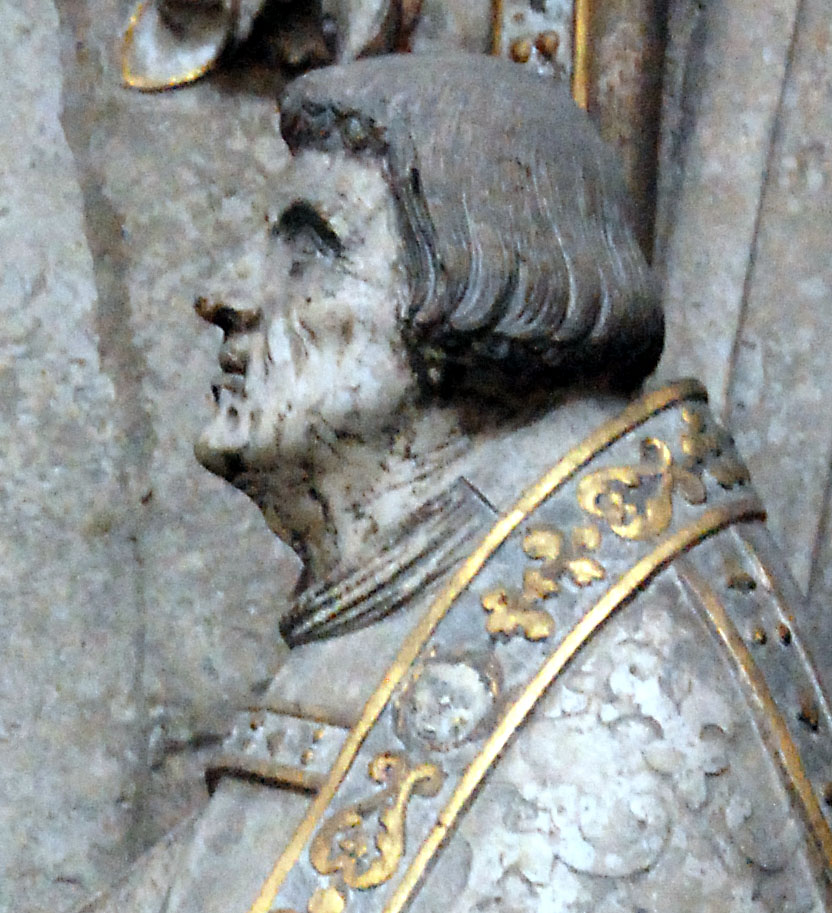 Bishop Konrad von Thüngen detail of grave